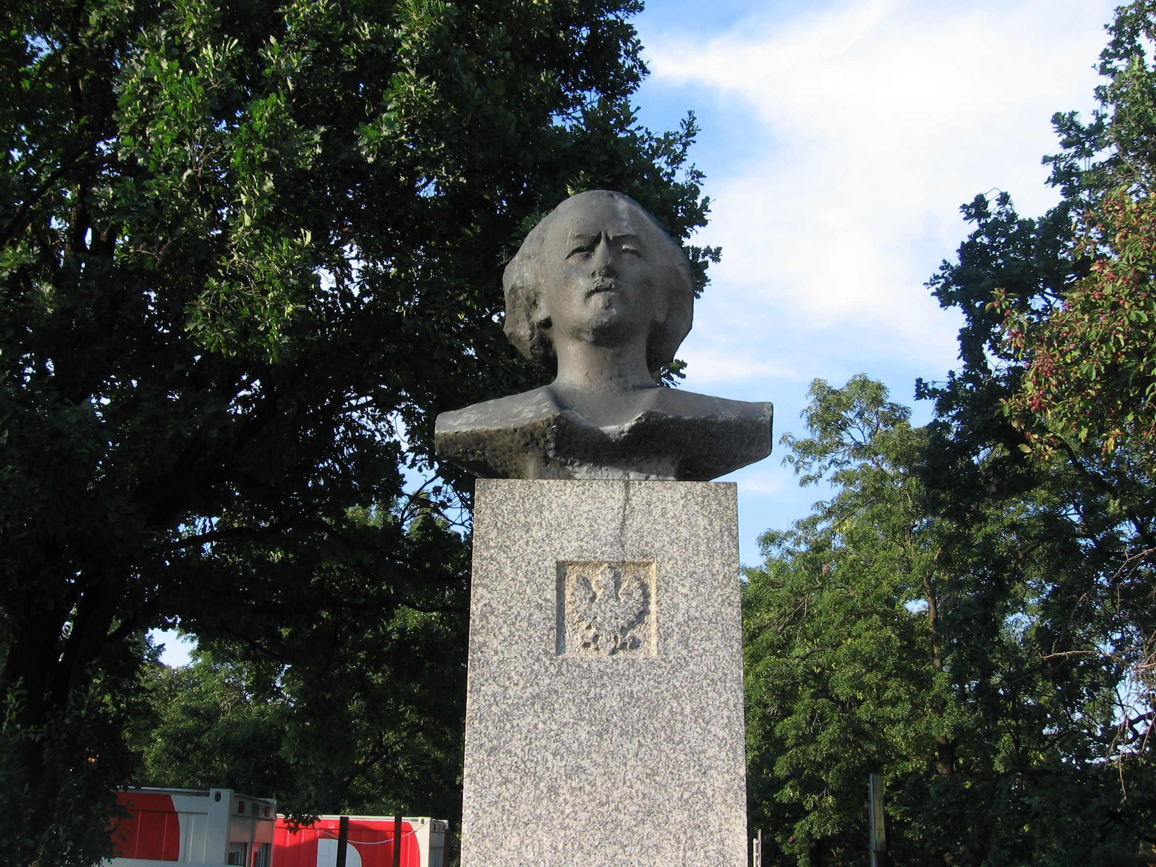 J.I.Paderewski Monument, Skaryszewski Park, Warsaw, Poland